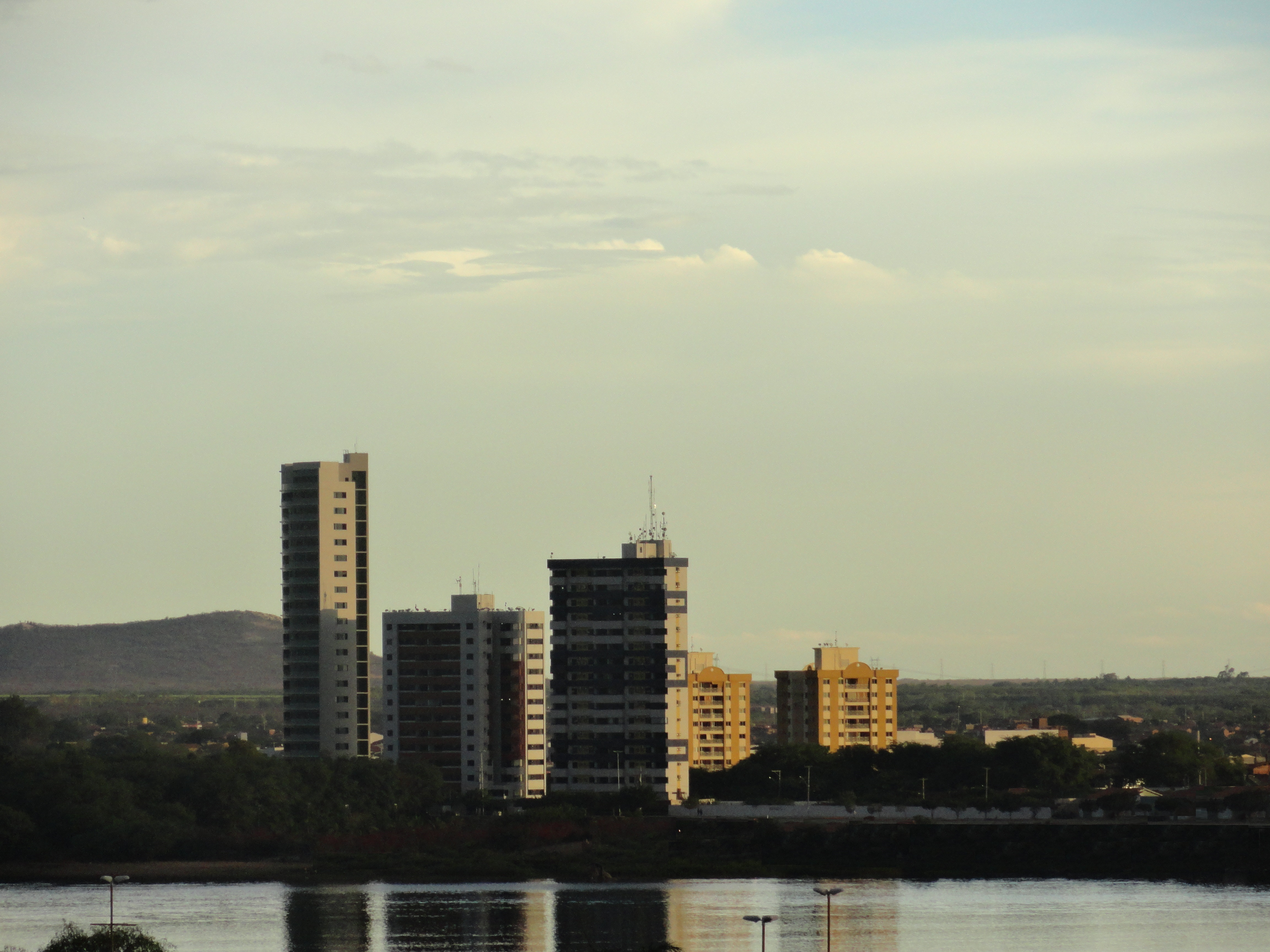 Juazeiro - State of Bahia, Brazil